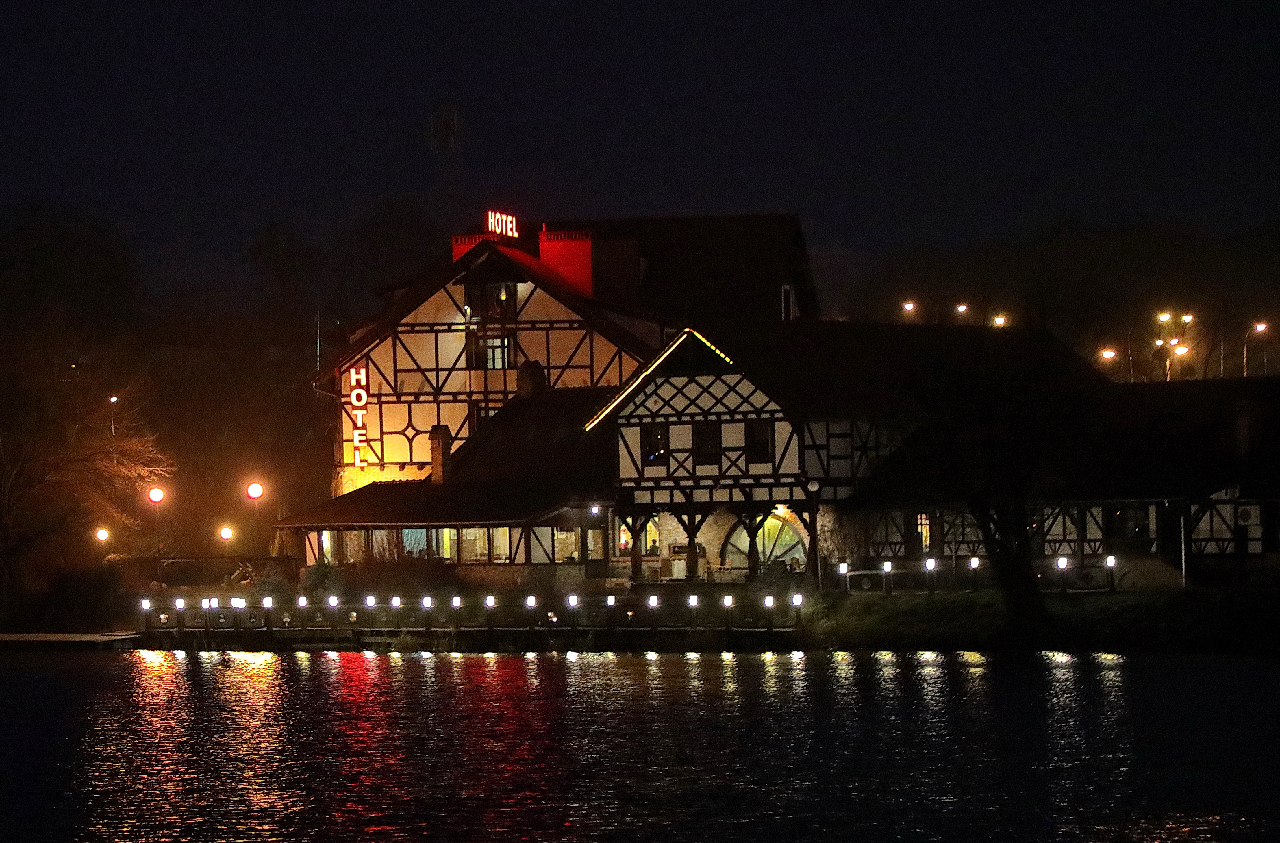 Hotel Stary Tartak by night.